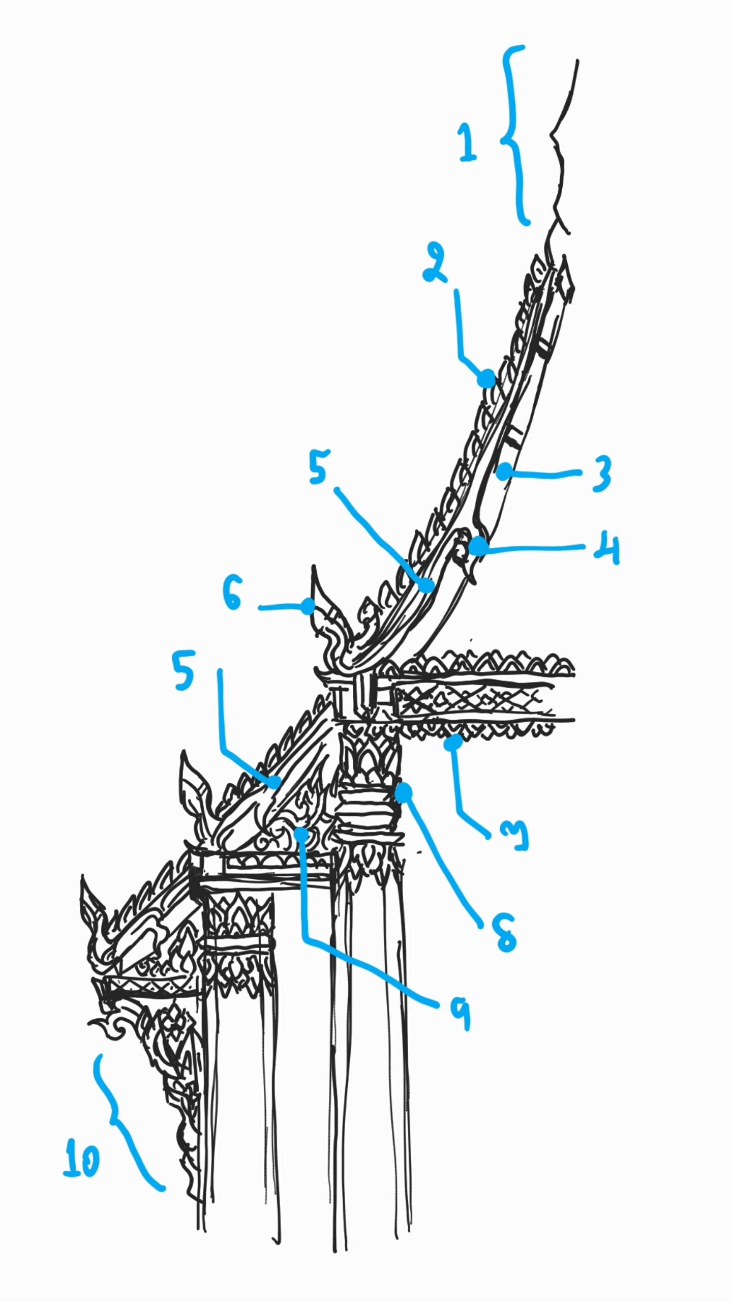 Thai Temple (Wat) Architecture sketch of the part call "Krueng Lamyong" (เครื่องลำยอง) The part labelled: 1) Chofa (ช่อฟ้า) 2) Bai Rakha (ใบระกา) 3) Ruay Rakha (รวยระกา) 4) Nguang Aiyara (งวงไอยรา) 5) Nak Sadoung (นาคสะดุ้ง) 6) Hang Hong (หางหงส์) 7) Gra Jung Ruan (กระจังรวน) 8) Bua Jong Kol (บัวจงกล) 9) Jhua Bung Nok (จั่วบังนก) 10) Khan Thuay (คันทวย)